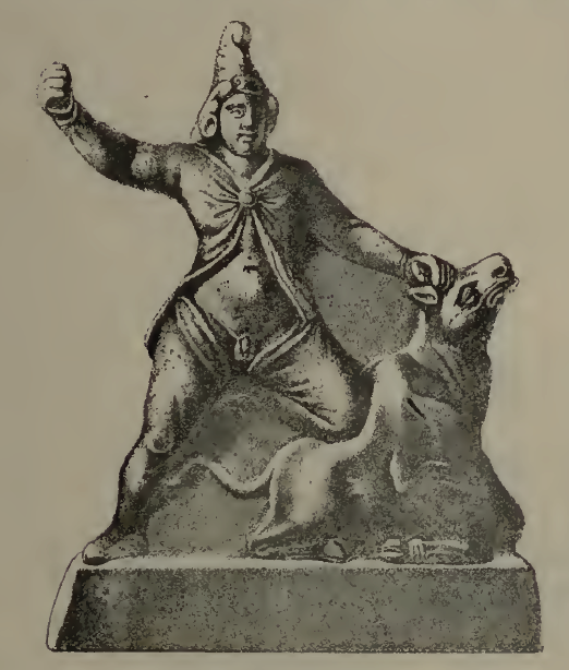 This is an image of tauroctonous Mithras-Attis from one of five plaques found in Kerch. It is taken from the book on Mithraism by Cumont. The identity of the figure in this image is not definite and is described as Mithras-Attis. The book was published towards the end of the 19th century and is in the public domain.